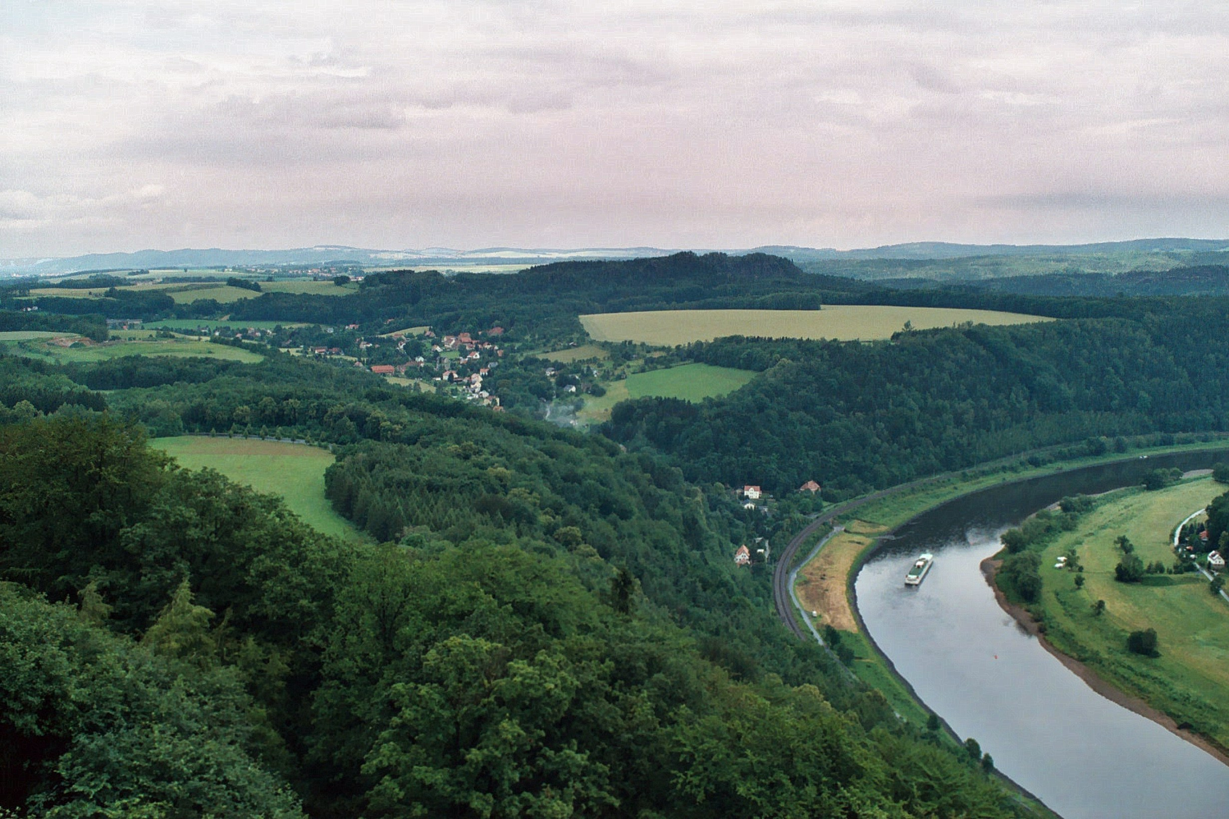 View from the fortress Königstein to the village Thürmsdorf